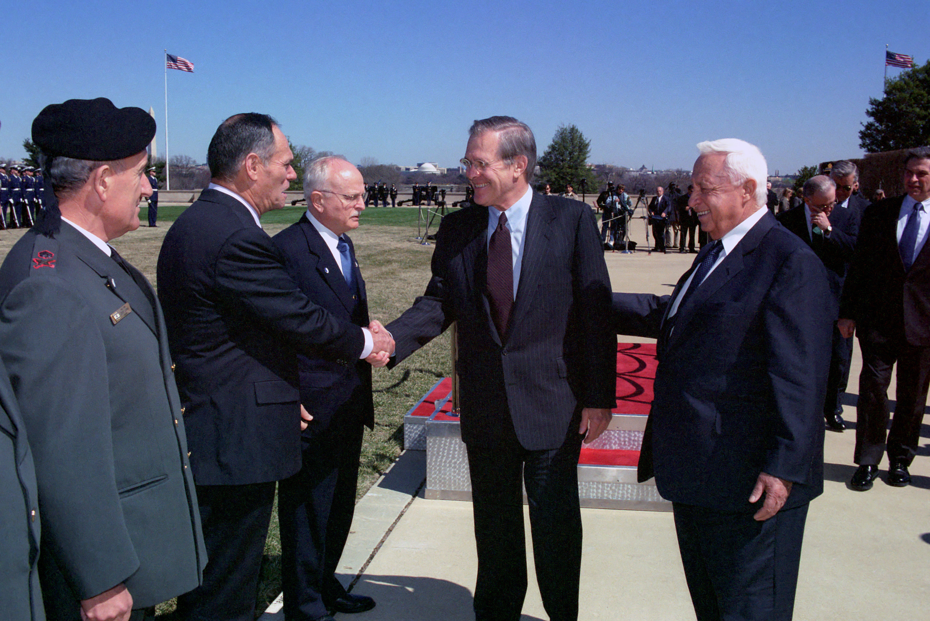 Donald H. Rumsfeld (center, right), U.S. Secretary of Defense, stands beside Ariel Sharon, Israeli Prime Minister, at the River Parade Field, Pentagon, Washington, D.C., Mar. 19, 2001, as he greets members of the Israeli delegation.